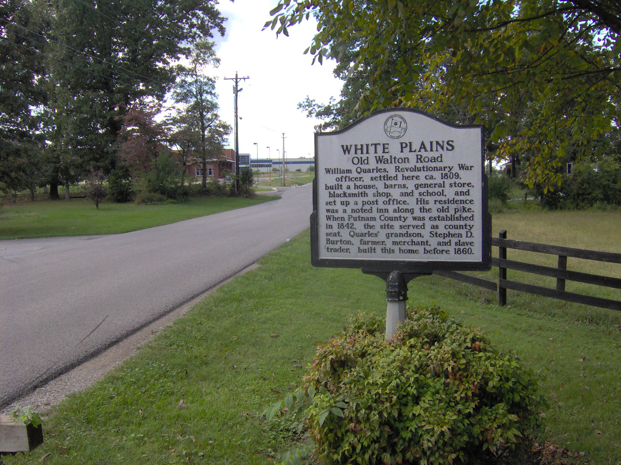 Tennessee Historical Commission marker along Old Walton Road, recalling the historical significance of White Plains.